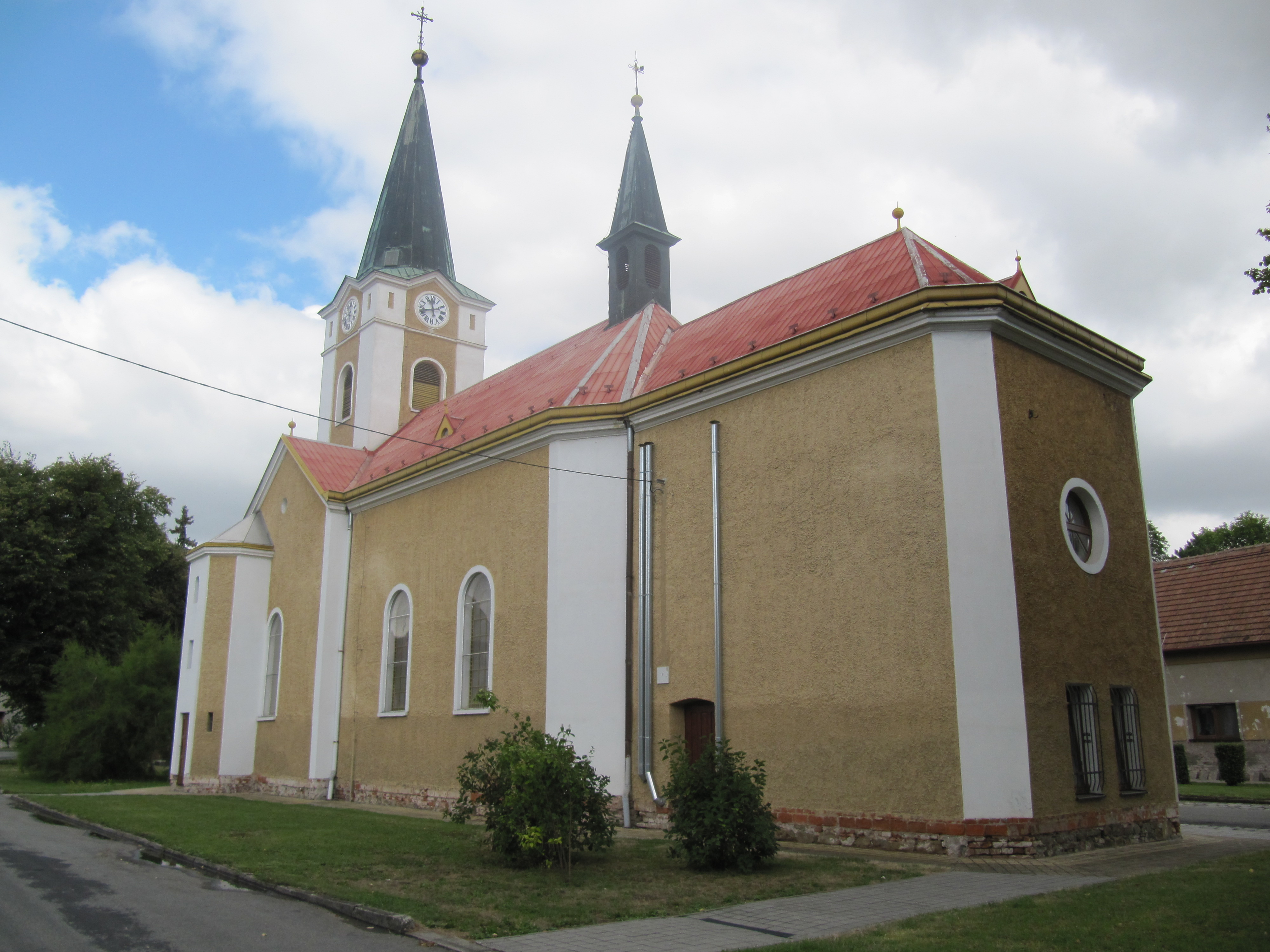 Hruška, Prostějov District, Czech Republic.